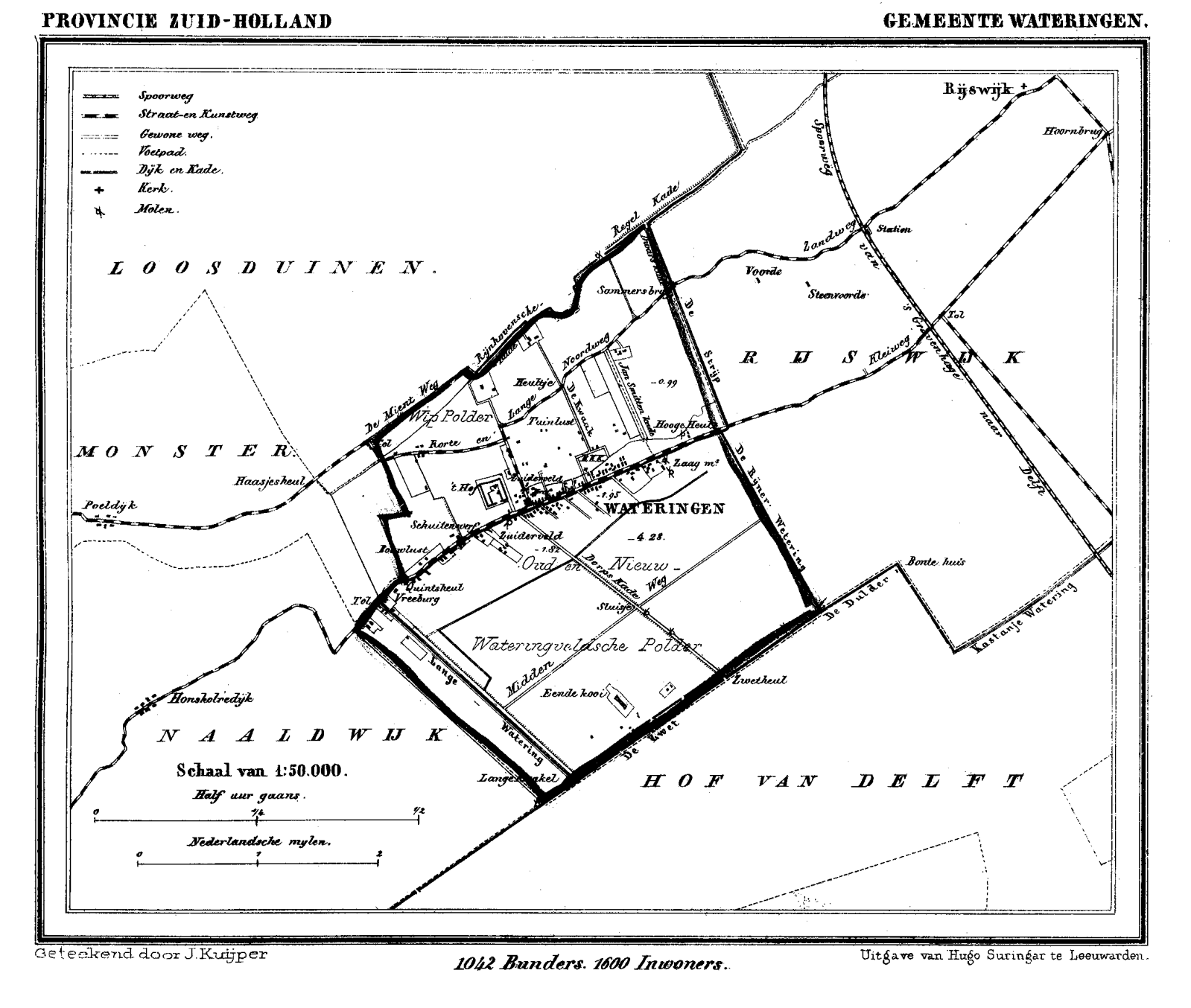 A map of the town Wateringen, The Netherlands, 1866.Historic map of Wateringen (now part of municipality Westland), South Holland, the Netherlands